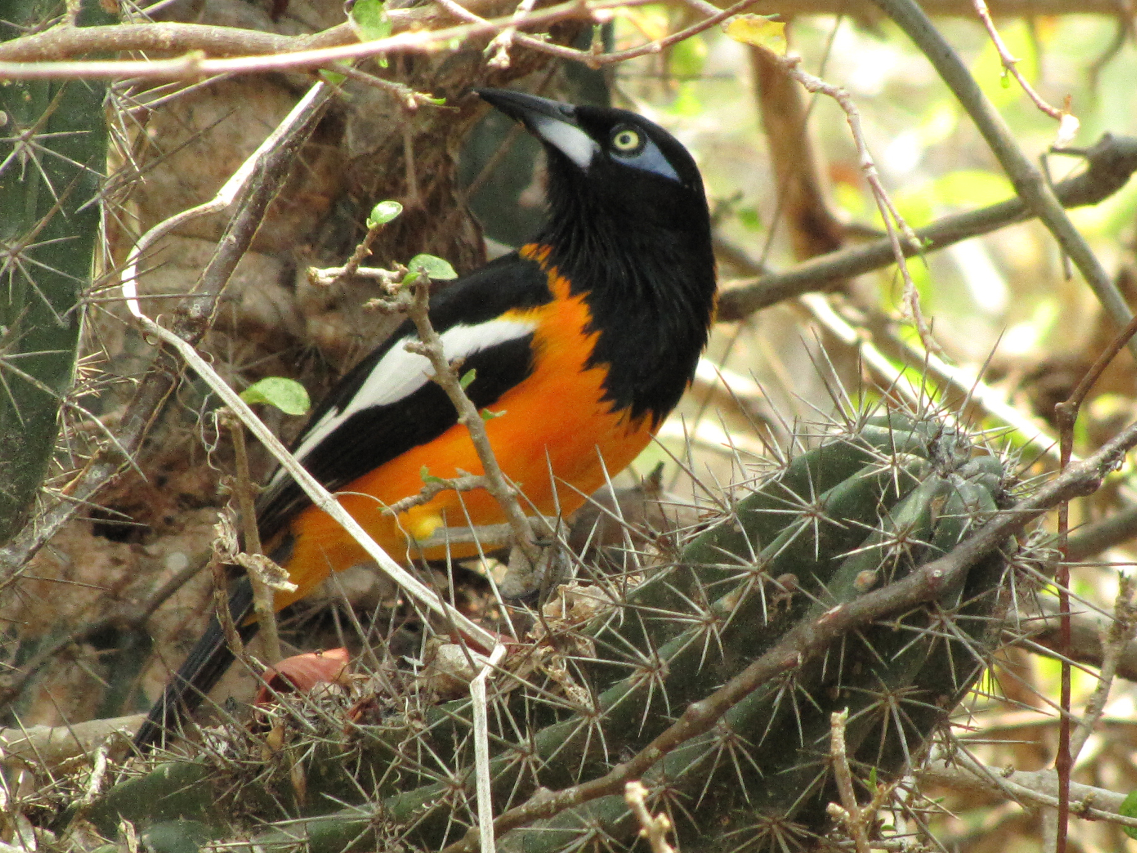 An Icterus icterus in a cactus on the island of Curaçao, Dutch Caribbean.